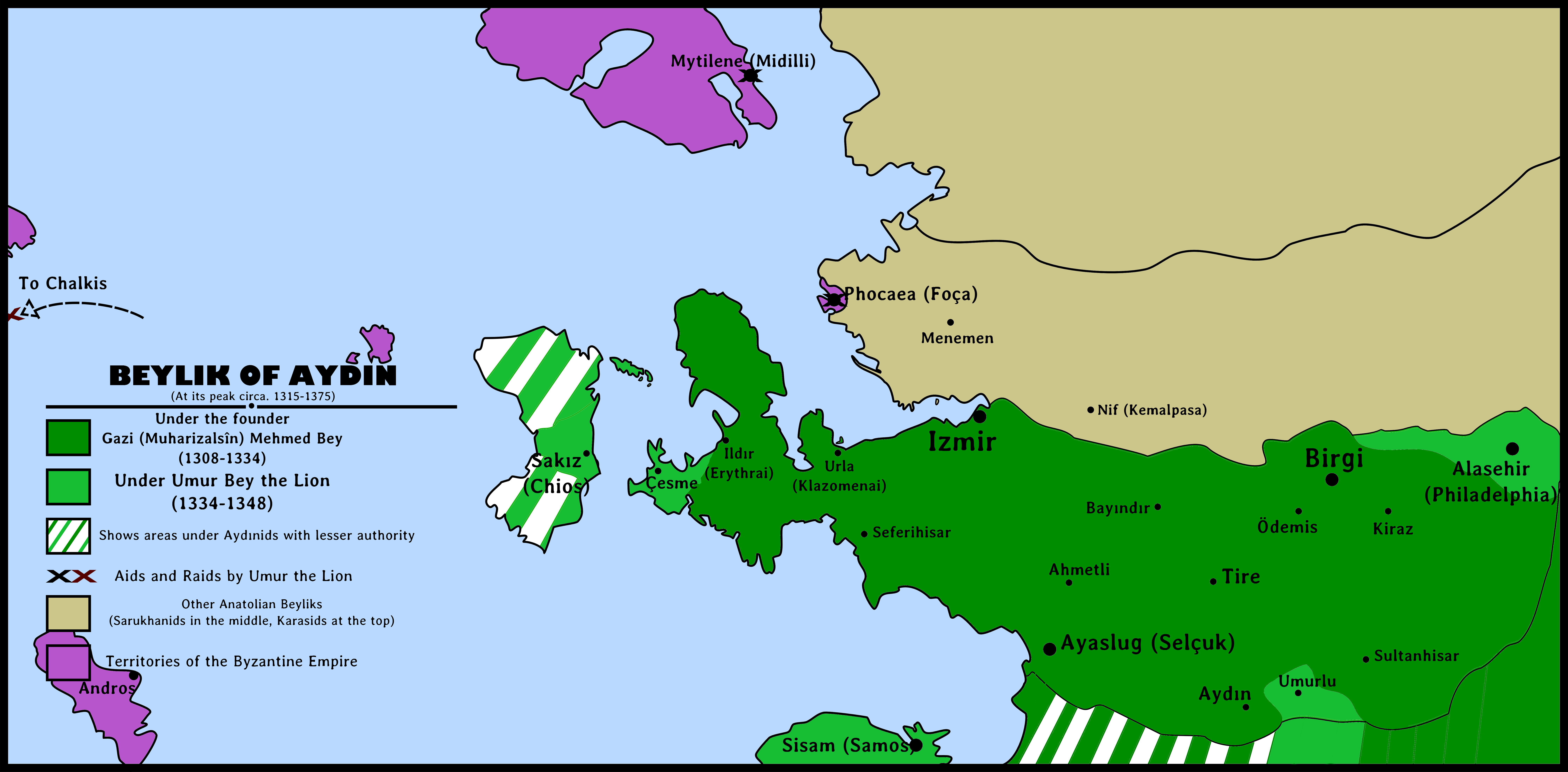 Beylik of Aydın(Aydınids)'s map during its peak years between 1315 and 1375. Beylik of Aydın Map highlighting: Borders under Gazi Mehmed Bey Borders after conquests under Umur Bey the Lion Byzantine Empire territories Other Western Anatolian BeyliksBlack "X" showing Umur Bey's aids Red "X" showing Umur Bey's raids